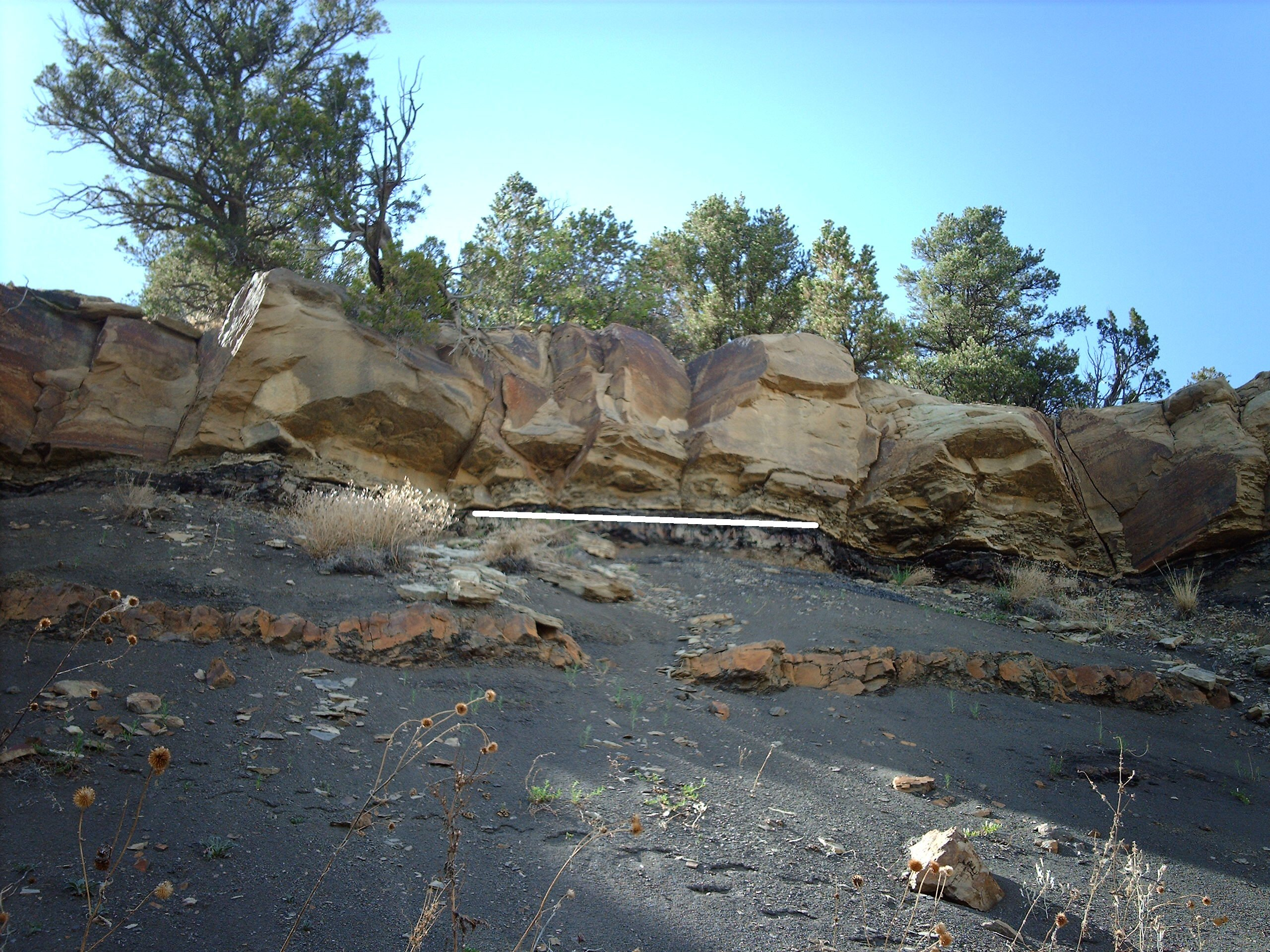 The Cretaceous–Paleogene boundary at Trinidad Lake State Park